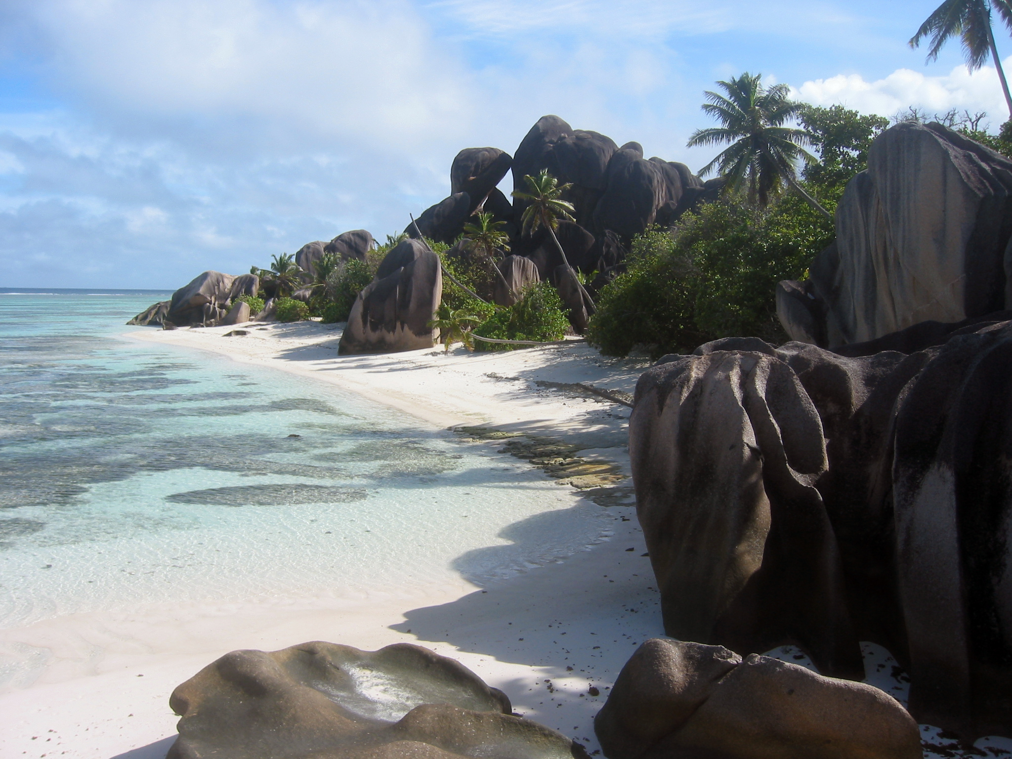 Anse Source d'Argent in the morning